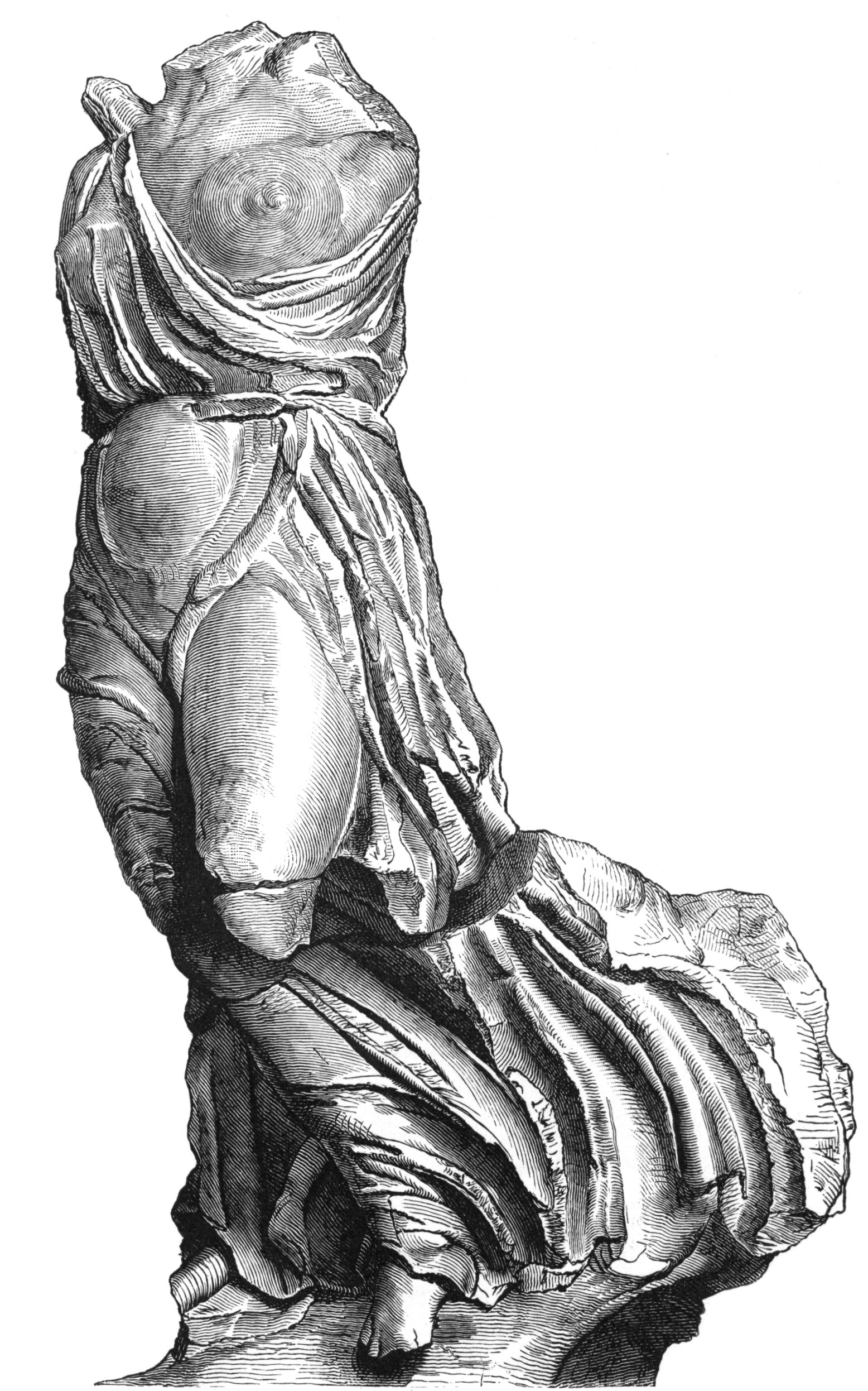 Illustration of the statue of Nike by Paeonius, circa 420 BC